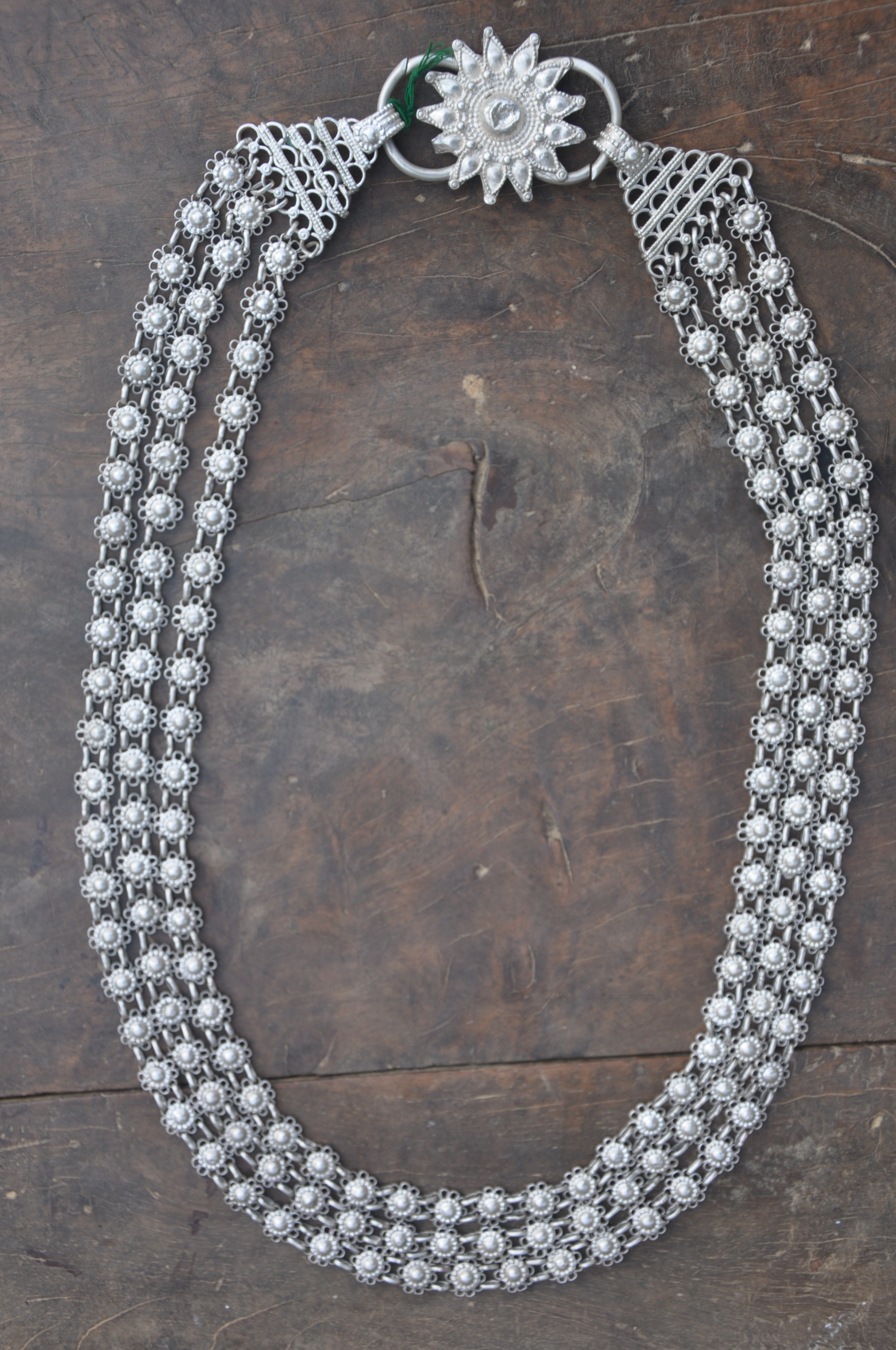 It is necklace prepared of silver only and put on the neck.